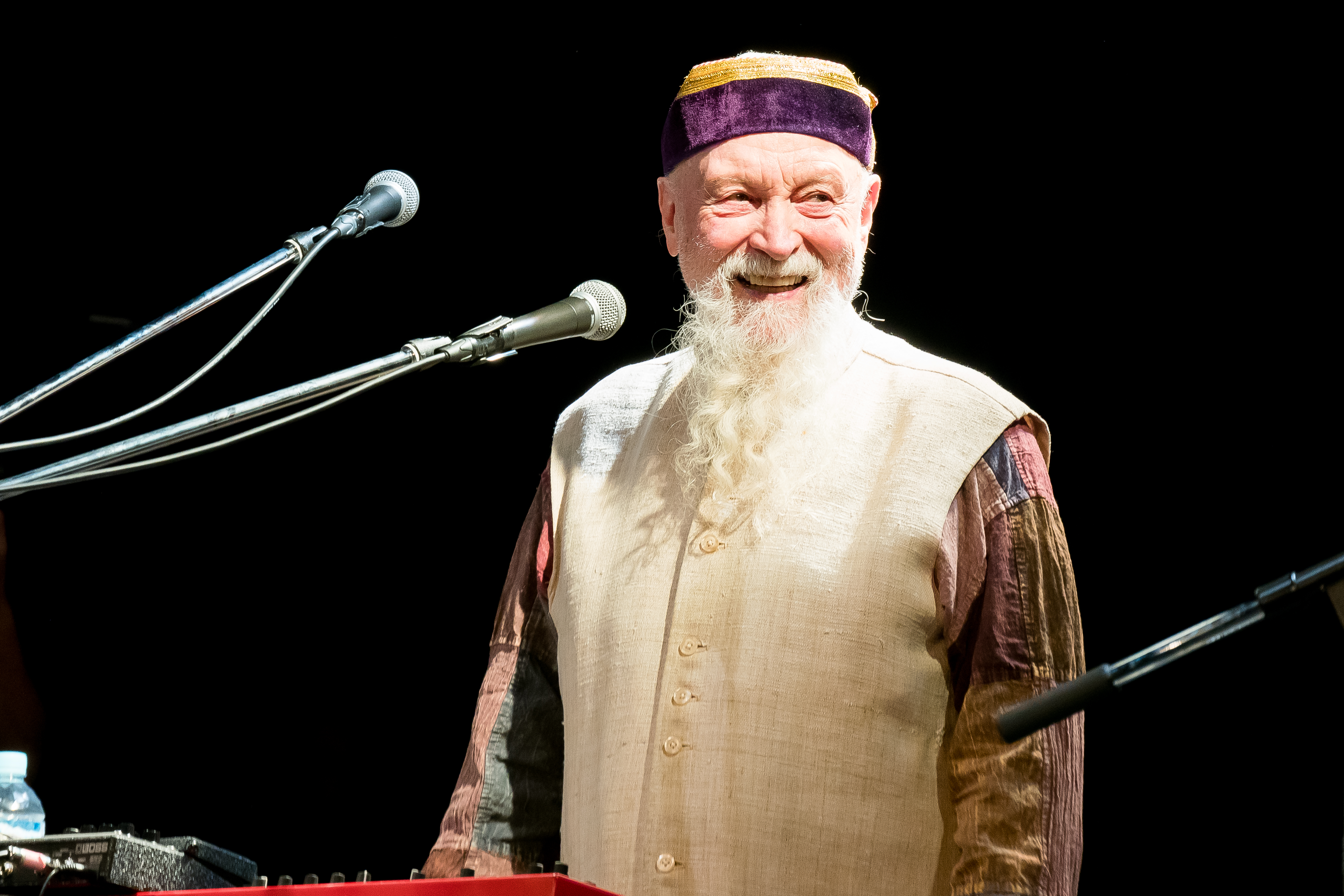 Terry Riley, Tokyo 8 Nov 2017